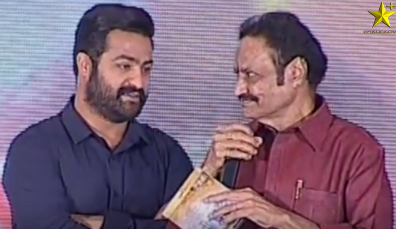 jr ntr with father Hari krishna at jai lava kusha event